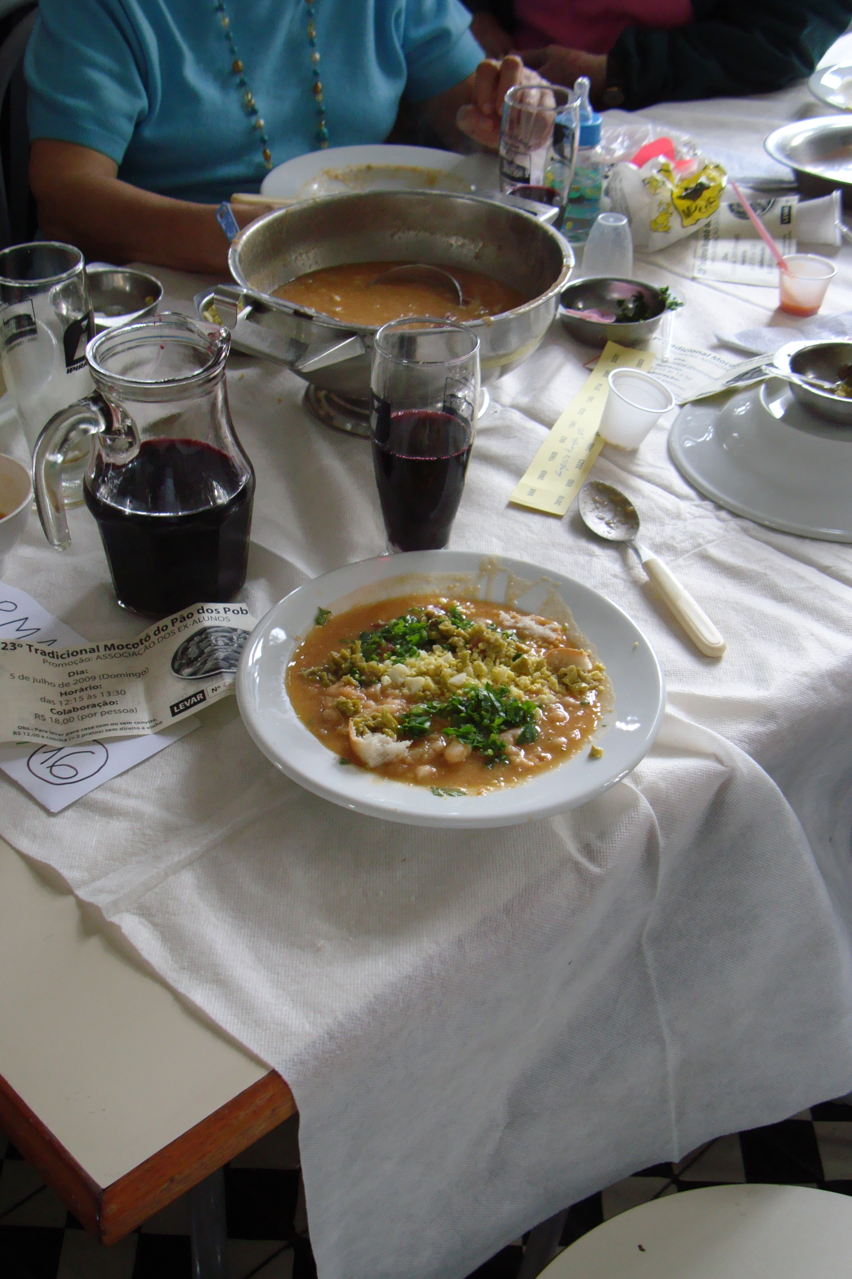 Mocoto of Rio Grande do Sul